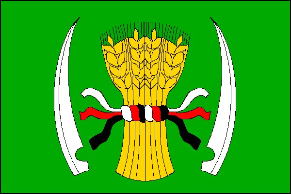 Municipal flag of Pacetluky village, Kroměříž District, Czech Republic.